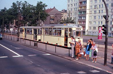 East Berlin tram, 1977. Taken while on vacation in Germany, never published.